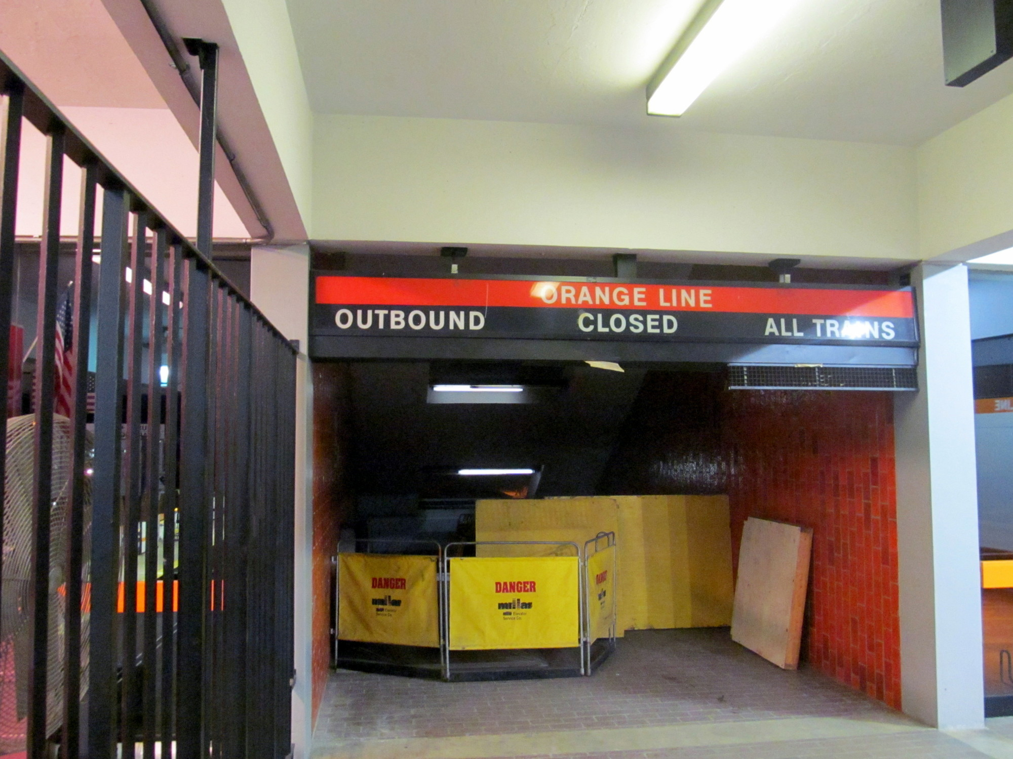 Oak Grove station has signs to the "outbound" platform - currently the Haverhill/Reading Line platform used only during service disruptions - as the Haymarket North Extension was originally planned to extend as far as Reading.